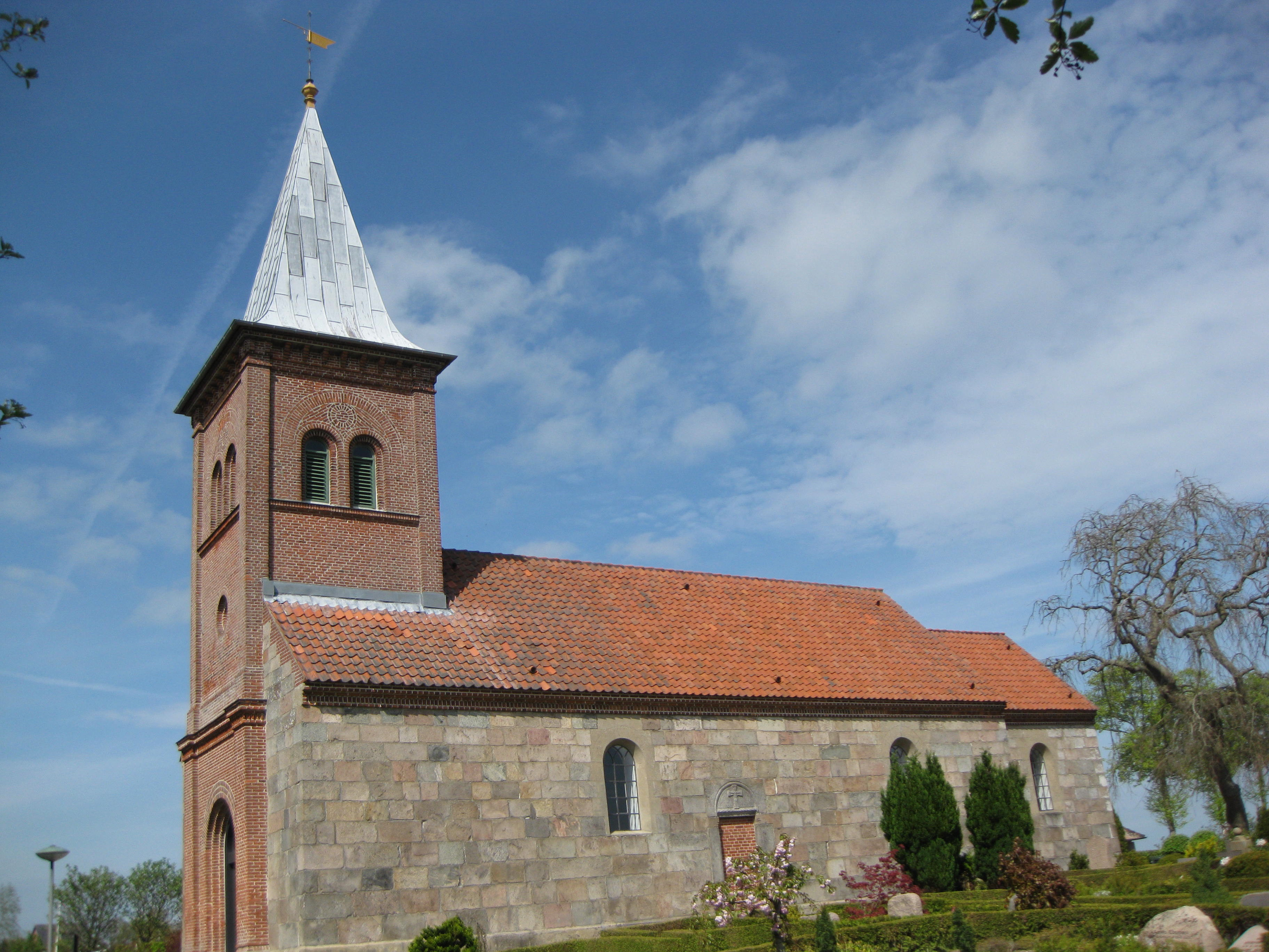 The church "Trige Kirke" in the small town "Trige" north of Aarhus. The town is located in East Jutland, Denmark.